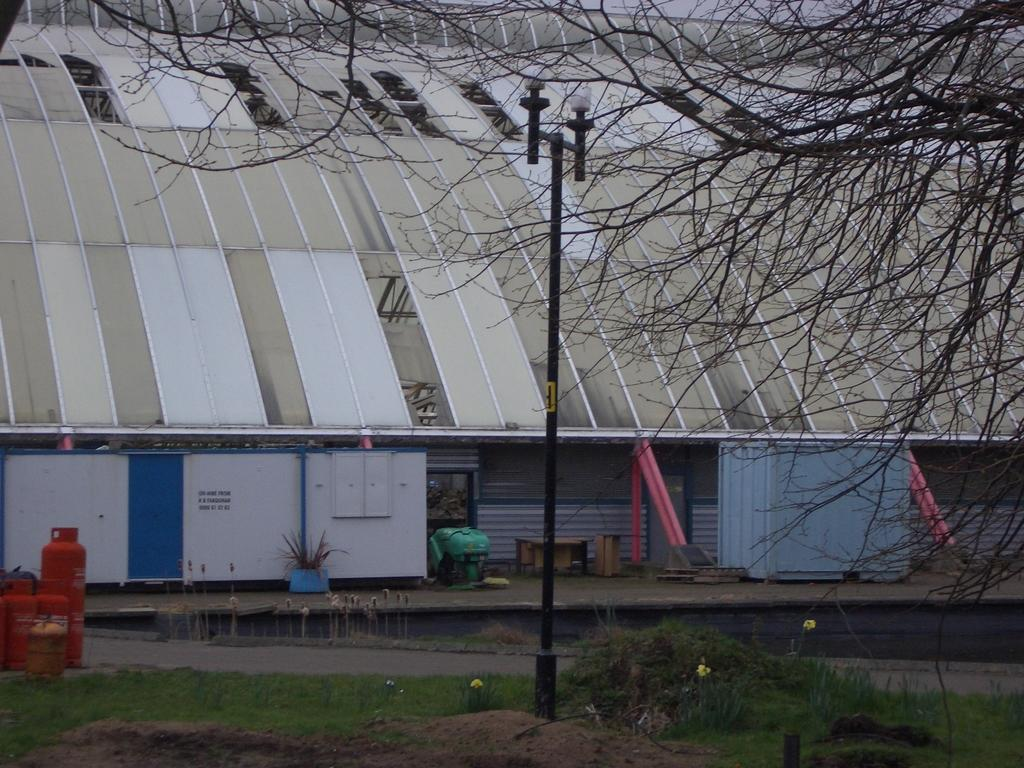 "A picture I took of the Liverpool Garden Festival site." (StephenH)